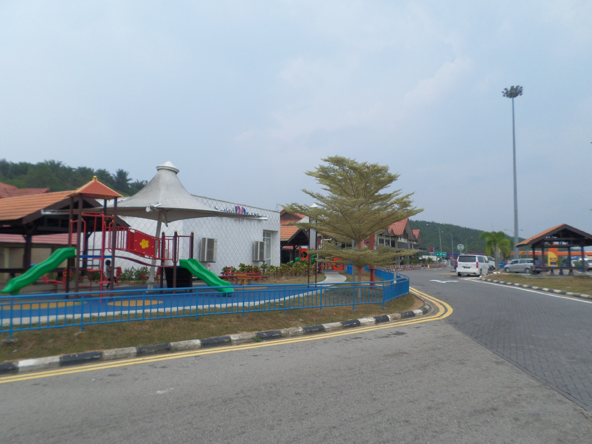 Pagoh Rest Area (Southbound), Pagoh, Muar, Johor, Malaysia